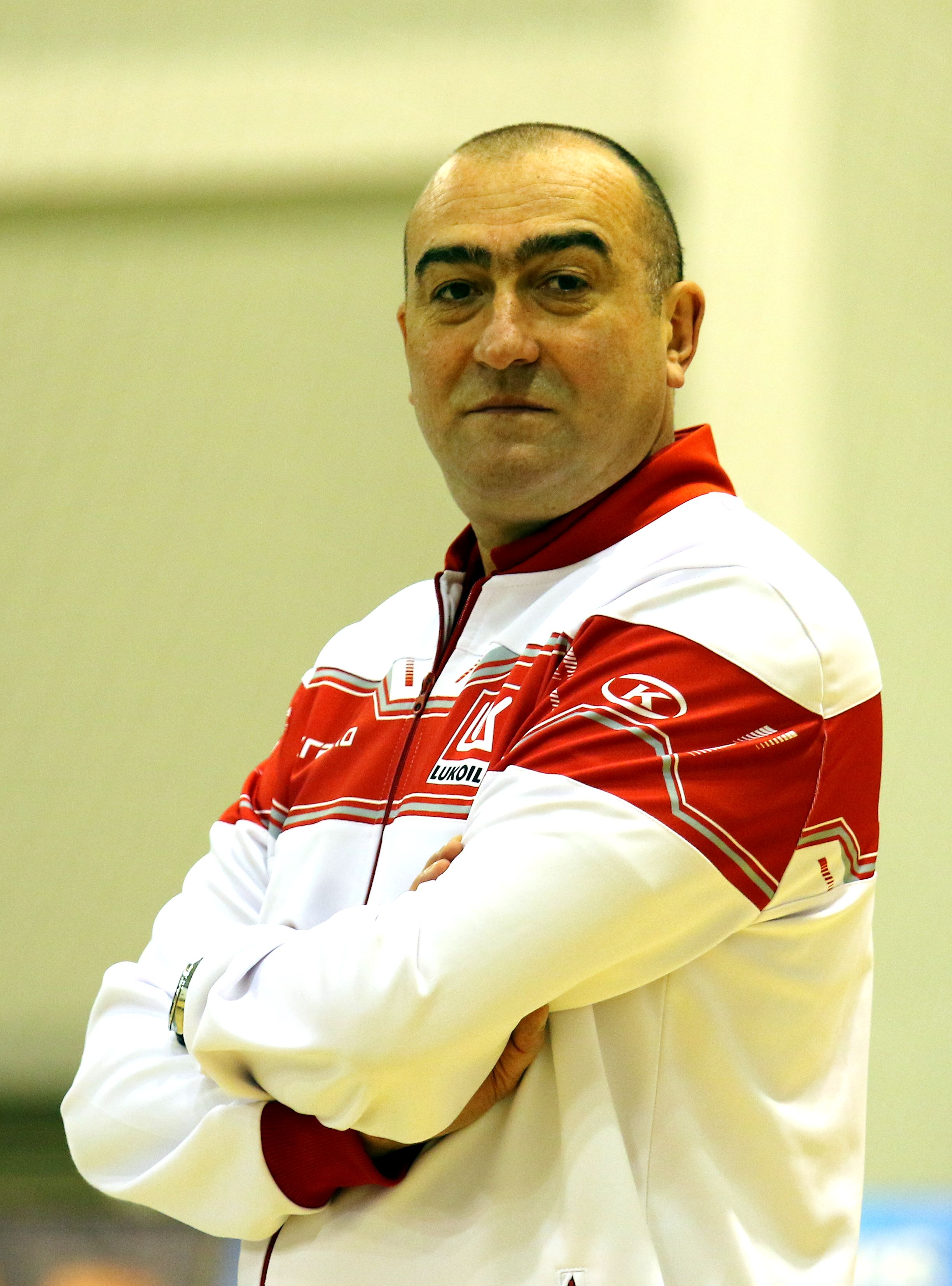 Nayden Naydenov - former Bulgarian volleyball player, national player, in present days-coach.